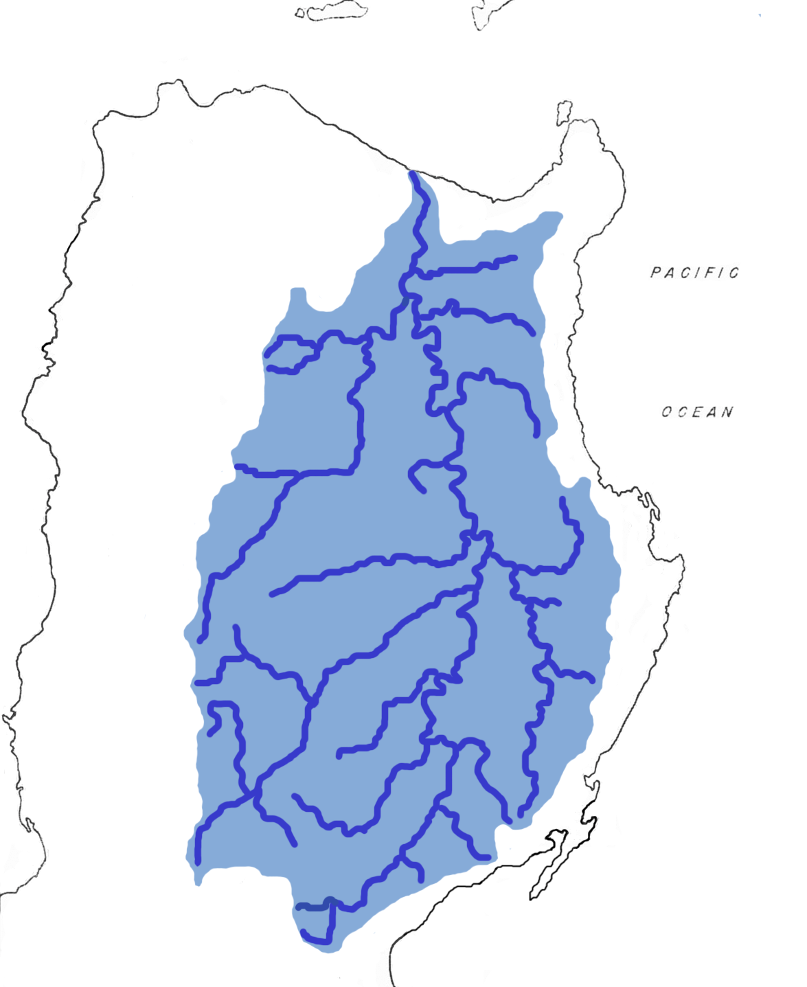 Drainage basin of the Cagayan River on the island of Luzon, Philippines. Tagalog: Ang mapa ng ilog ng Cagayan sa isla ng Luzon, Pilipinas. Cebuano: Ang mapa sa suba sa Cagayan sa isla sa Luzon, Pilipinas.